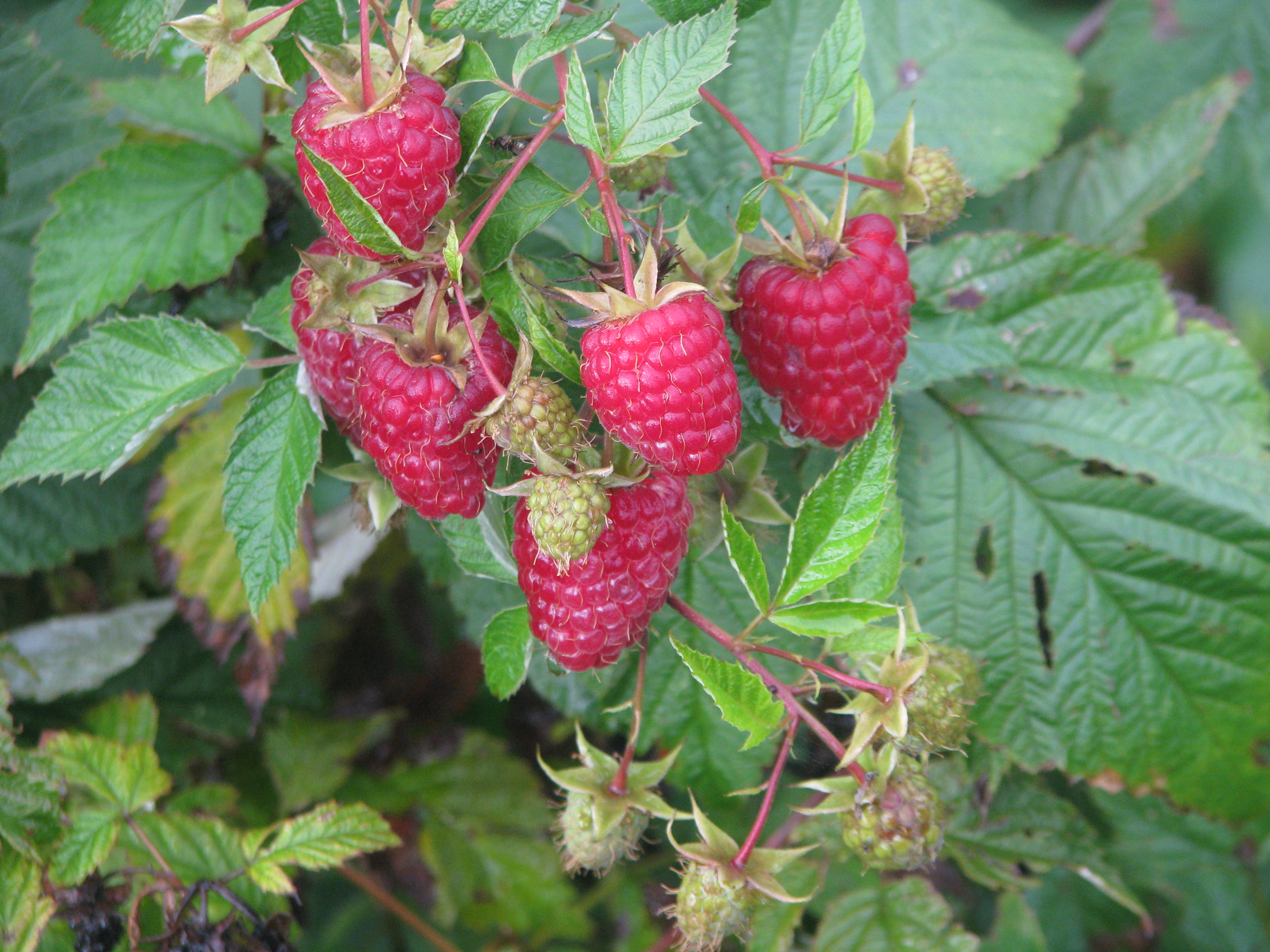 Raspberry 'Brilliantovaya'. Sept 2012. Russia, Ivanovo region, Savinsky district